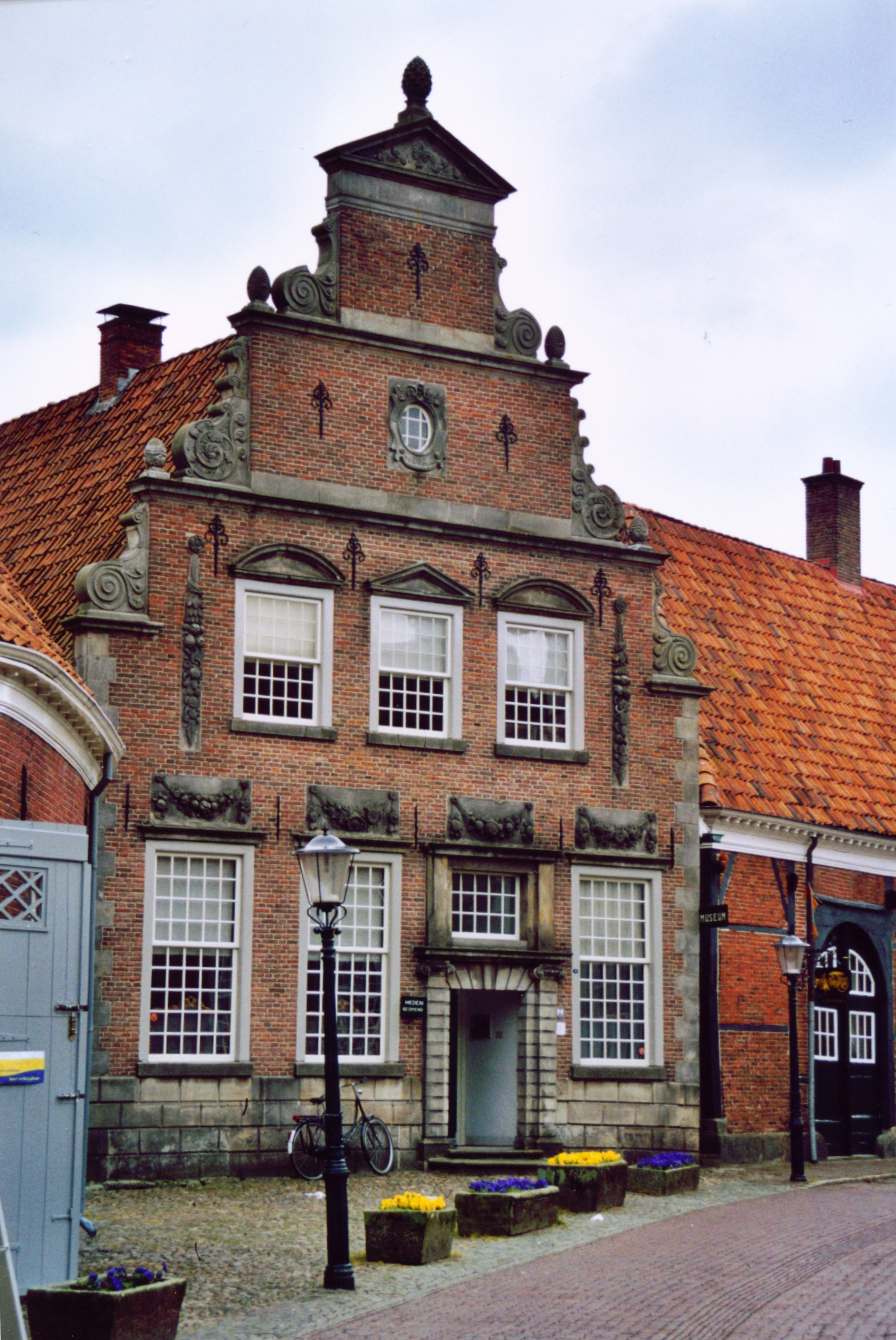 The Palthe House, historical museum of Oldenzaal